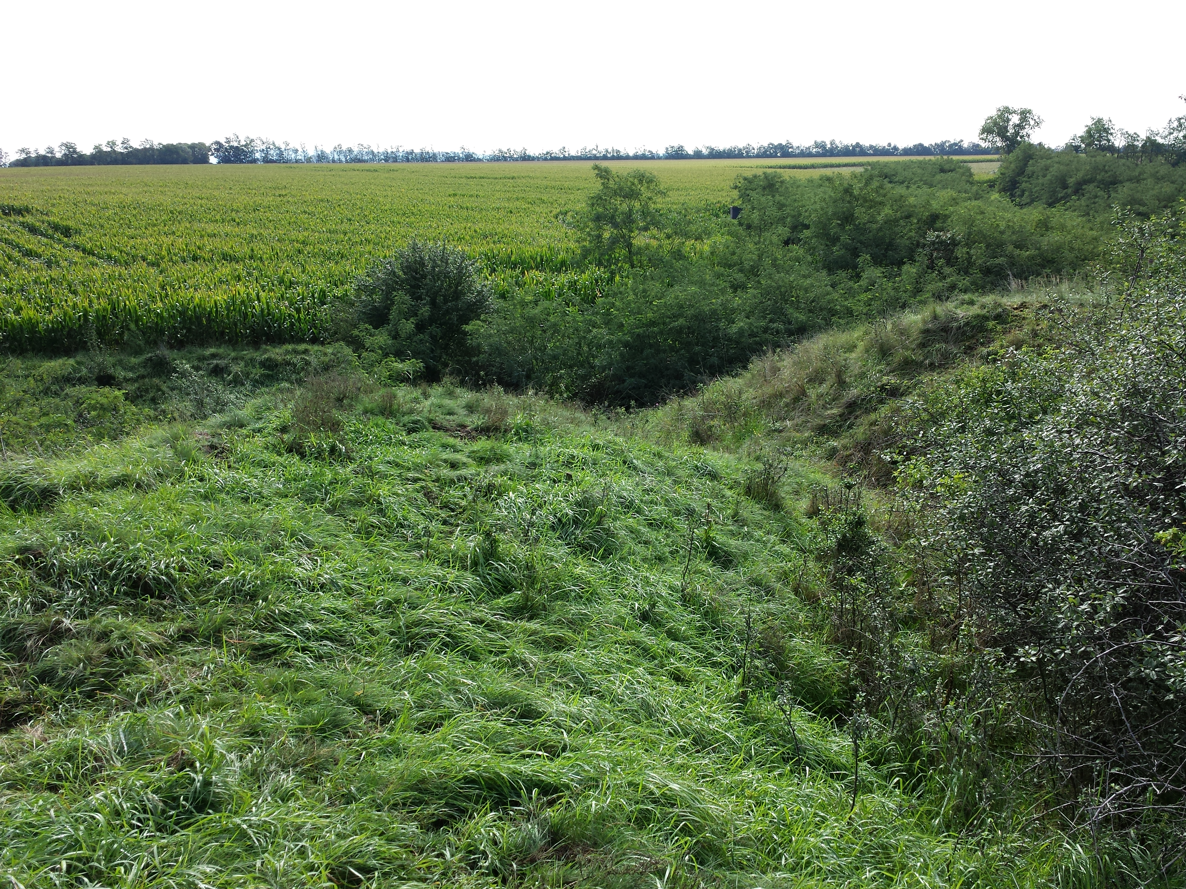 Gupferter Berg (former motte-and-bailey castle) near Unternalb, district Hollabrunn, Lower Austria View from the motte in a southeastern direction